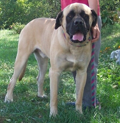 American Mastiff, Suma